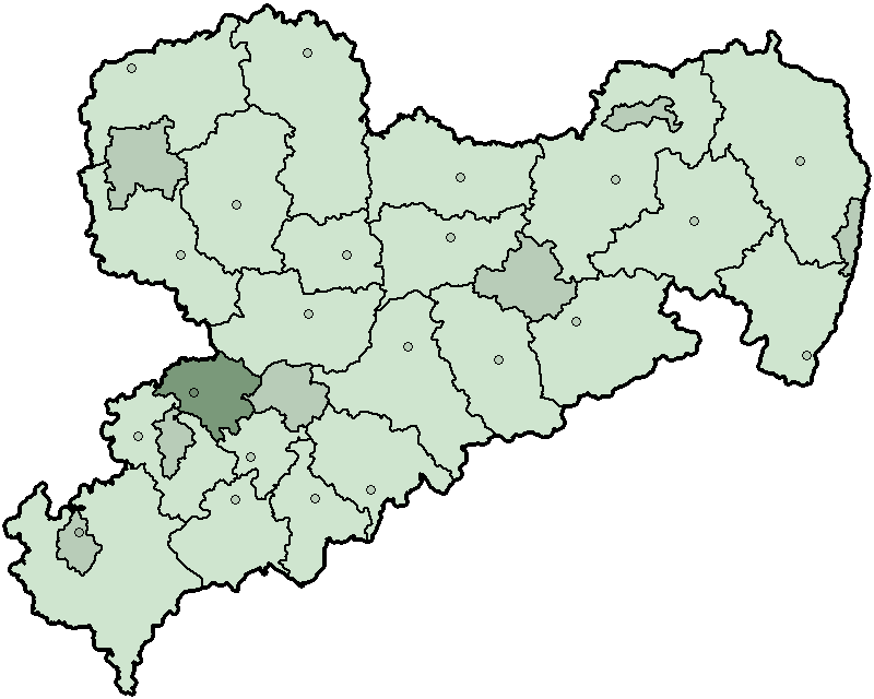 Map of the state Saxony in Germany before 2008, district Chemnitzer Land highlighted.